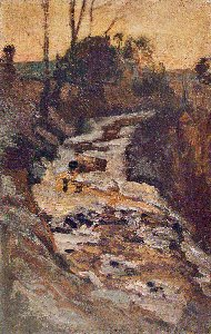 Feuerbach in autumn